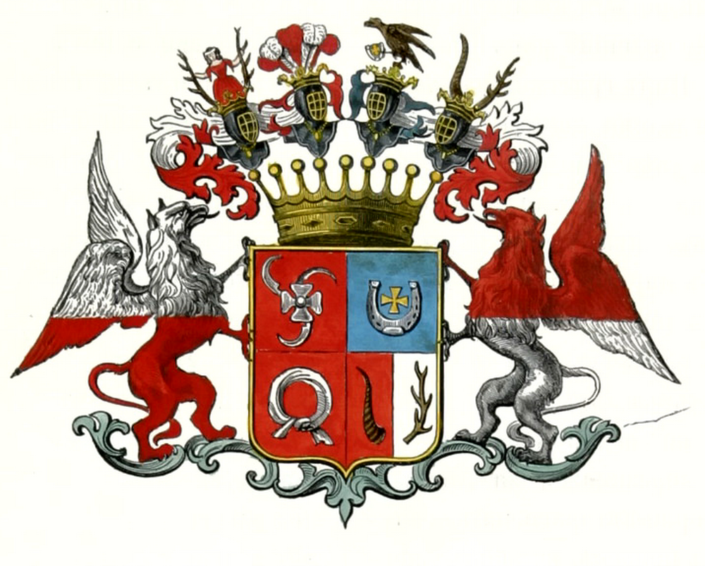 Coat of Arms of counts Lubienieccy family